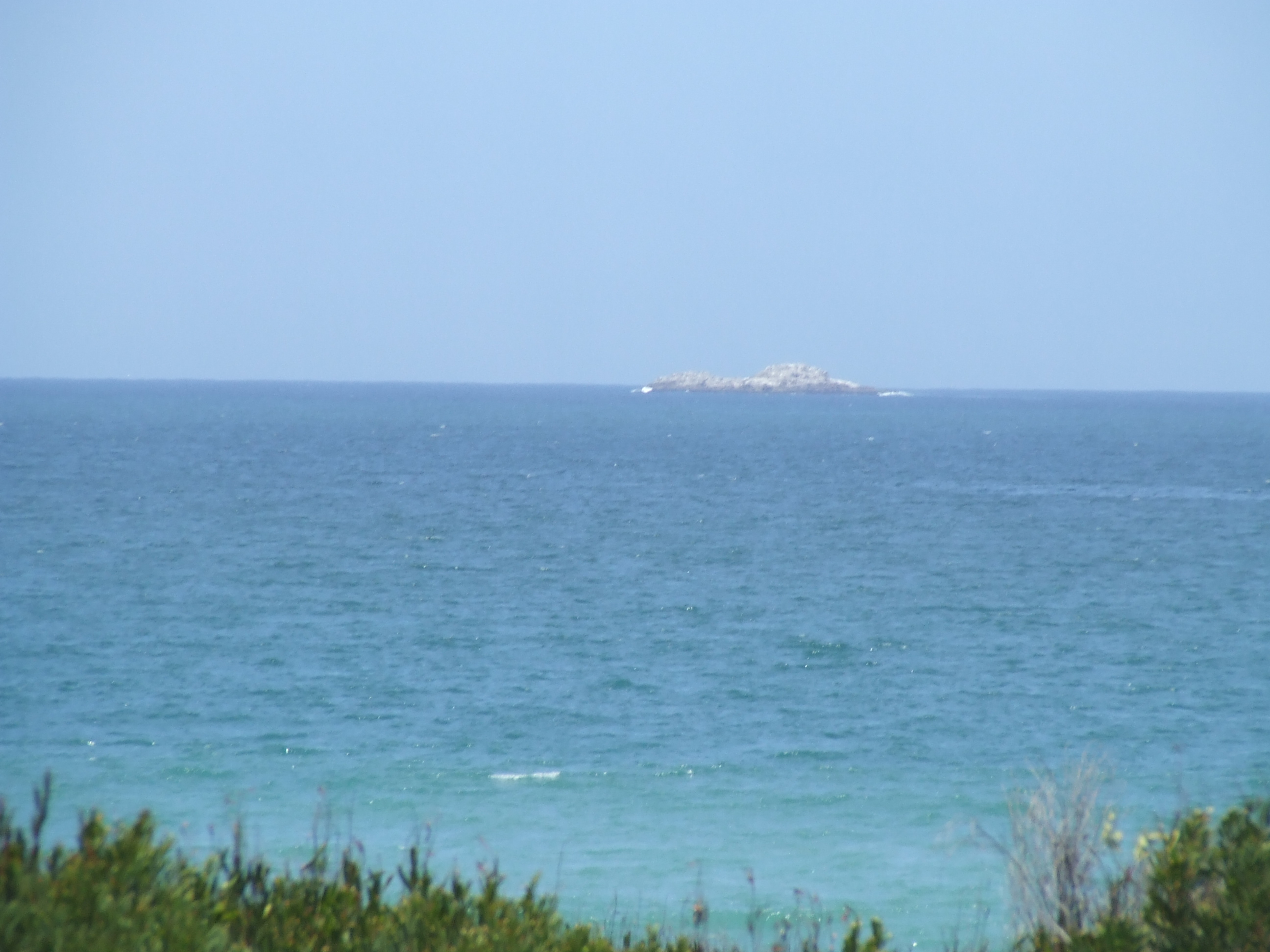 Brenton Island seen from SeaArk